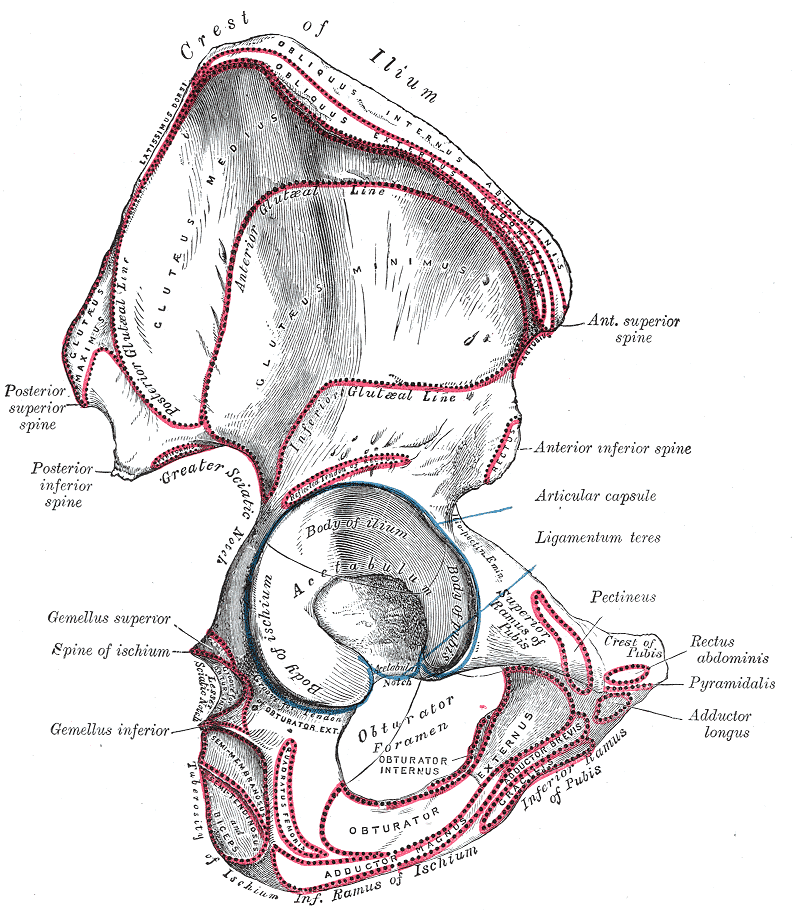 Right Os Innominatum, external surface.